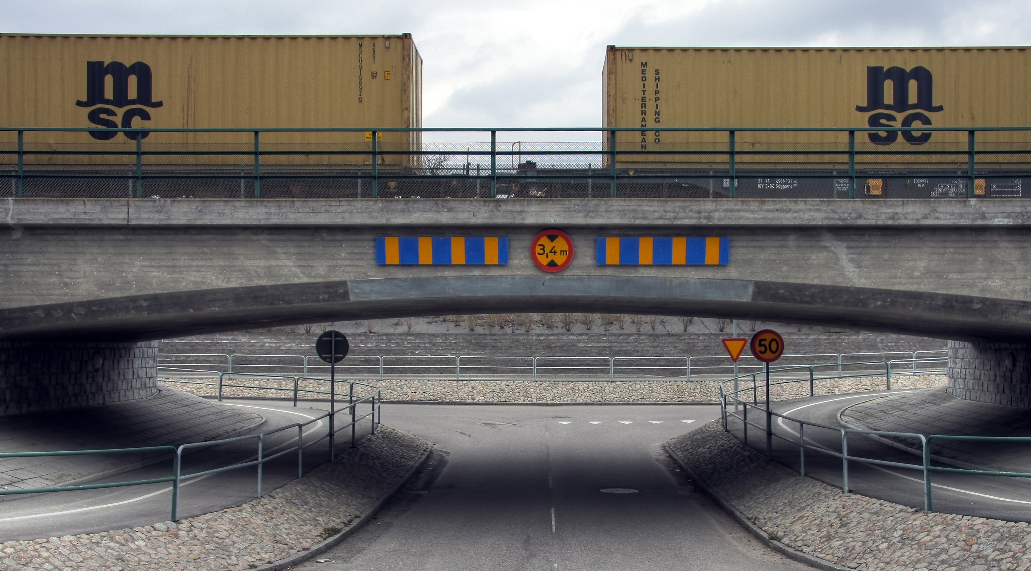 Low clearance road sign at a railway crossing in Vinslöv, Sweden